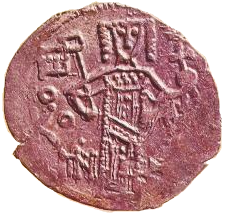 Coin depicting emperor of Trebizond, John II.